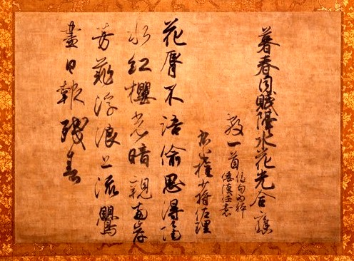 Fujiwara Sukemasa writing Shikaishi